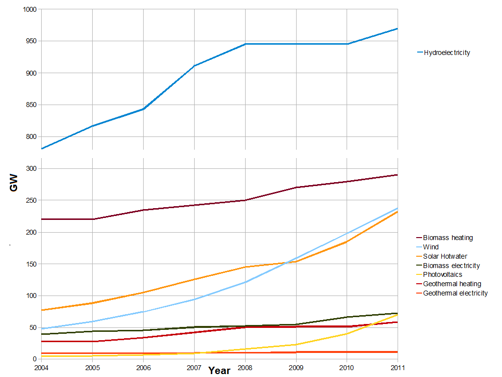 World renewable installed capacity in 2011, from REN21 reports[1]. Not shown are CSP, which reached 1.8 GW in 2011 and Ocean power, which reached 0.5 GW in 2011, or Ethanol, which reached 86.1 billion litres/year or Biodiesel, which reached 21.4 billion litres/year.